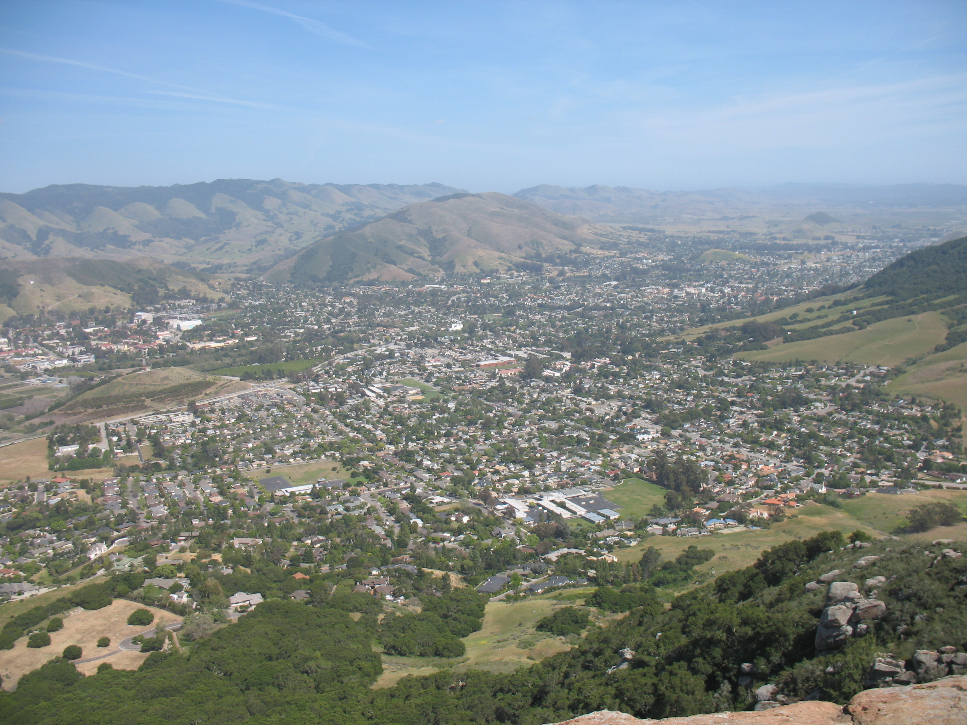 San Luis Obispo, California. Seen from Bishop peak.